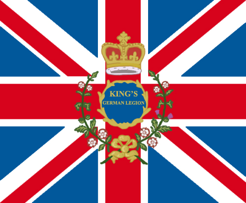 Flag of a battalion in the Kings German Legion (1803-16), of the British Army.